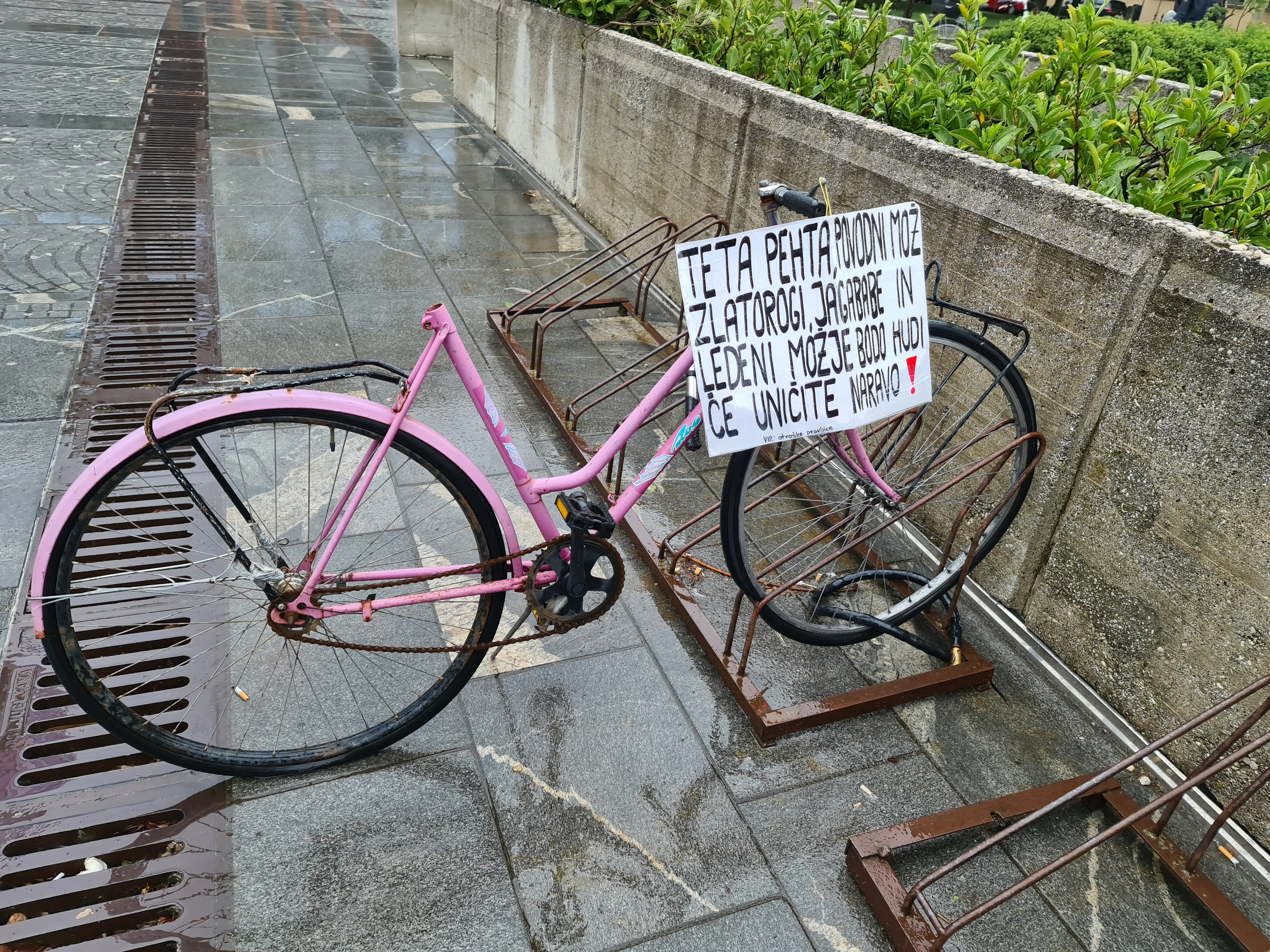 A photograph of a bicycle with a transparent from the protest We Won't Give up the Nature! of 12/05/2020. The inscription: "Aunt Pehta, the Waterman, goldhorns, jagababas and icemen will be angry if you destroy the nature".